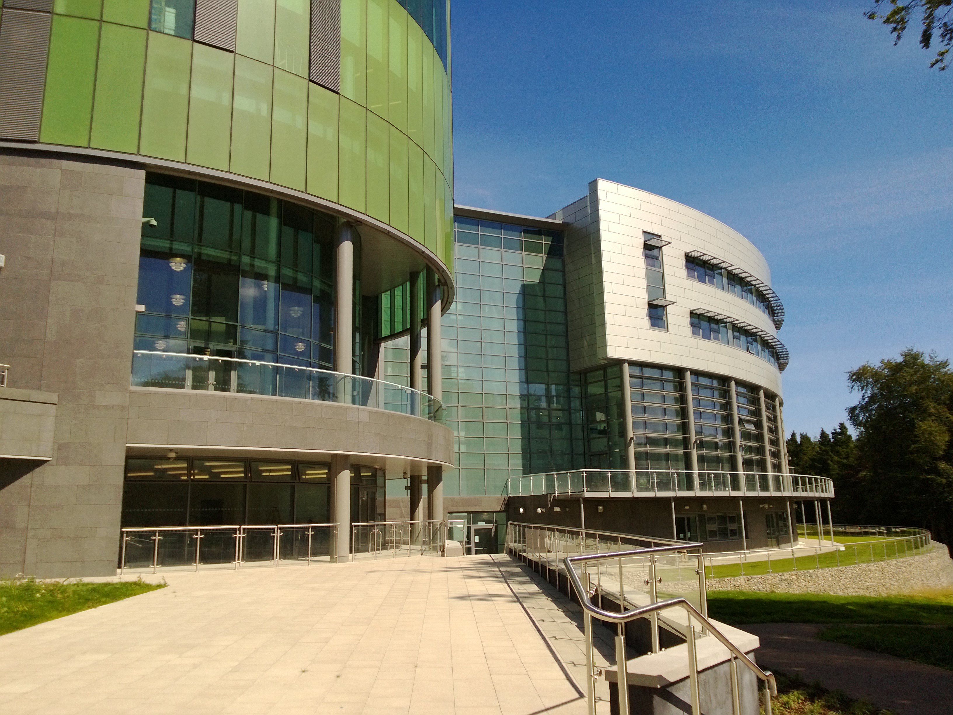 View of riverside face of Riverside East building at The Robert Gordon University, Aberdeen, UK, at the university's Garthdee campus. Windows here look onto the River Dee with additional lawn space on the riverbank. Photo taken in August 2013.